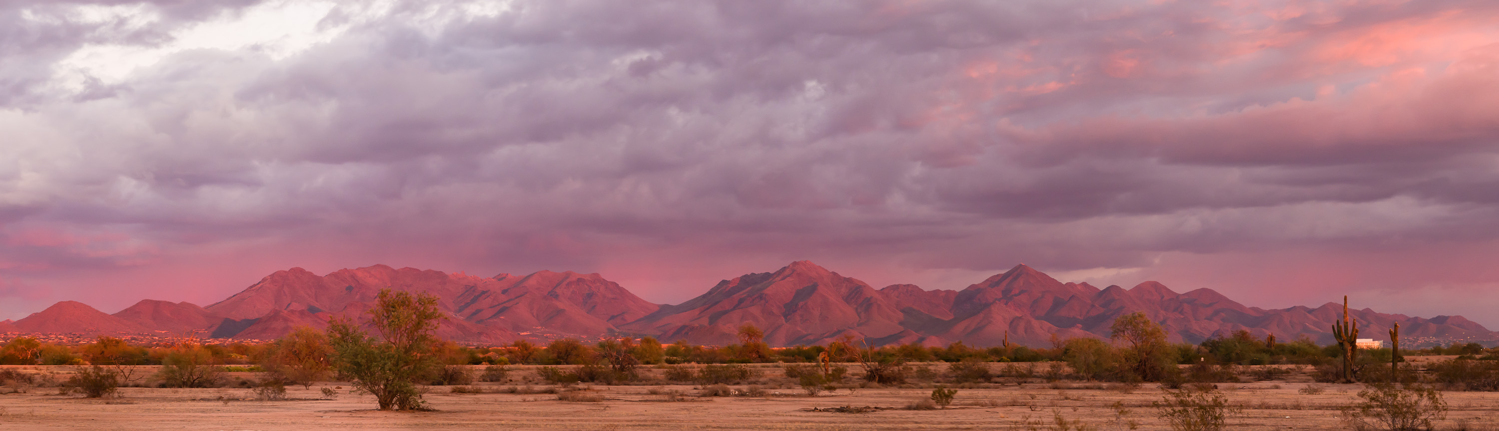 The McDowell Mountain Range near Phoenix, Arizona at sunset.